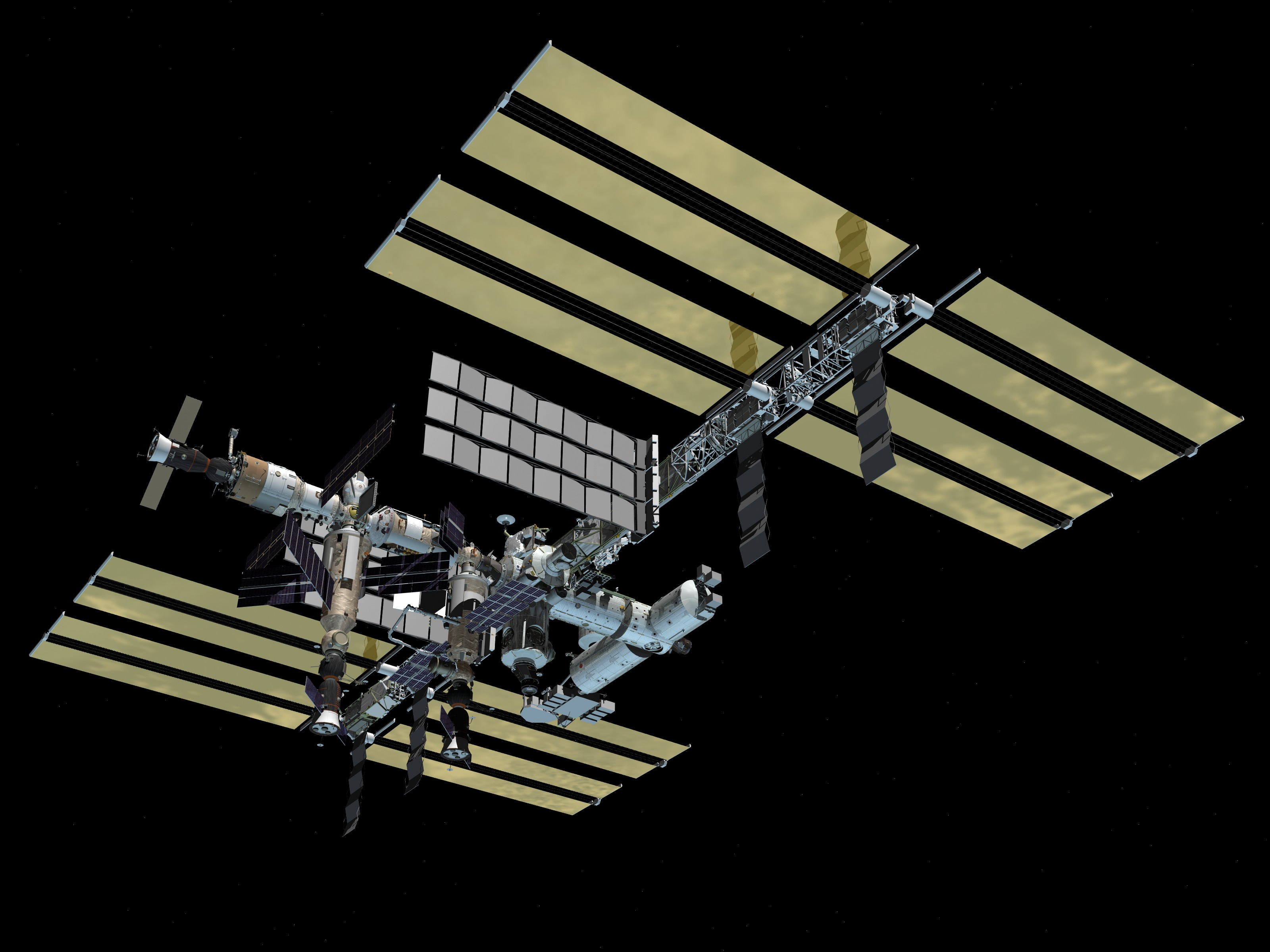 JSC2006-E-25659 (June 2006) --- Computer-generated scene showing a low-angle medium close view (starboard-aft) of the International Space Station, after assembly work is completed.